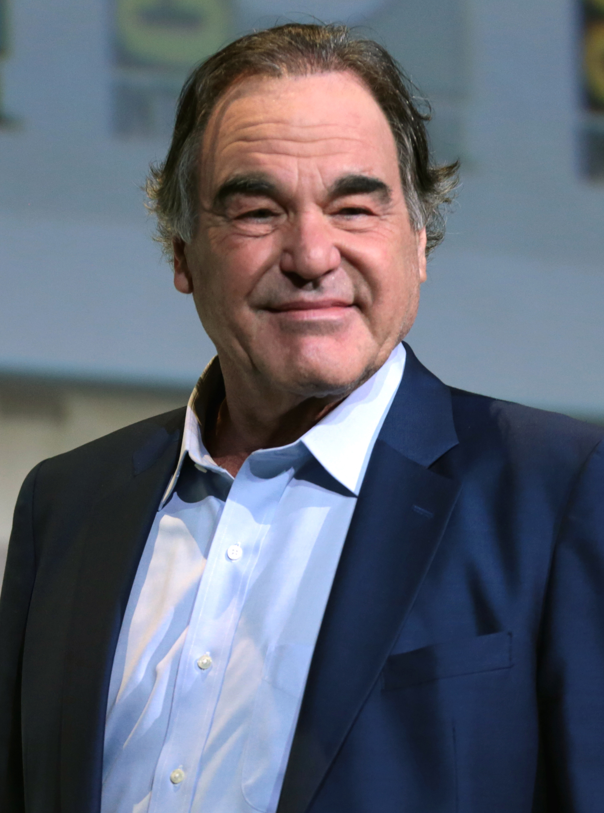 Oliver Stone speaking at the 2016 San Diego Comic-Con International in San Diego, California.